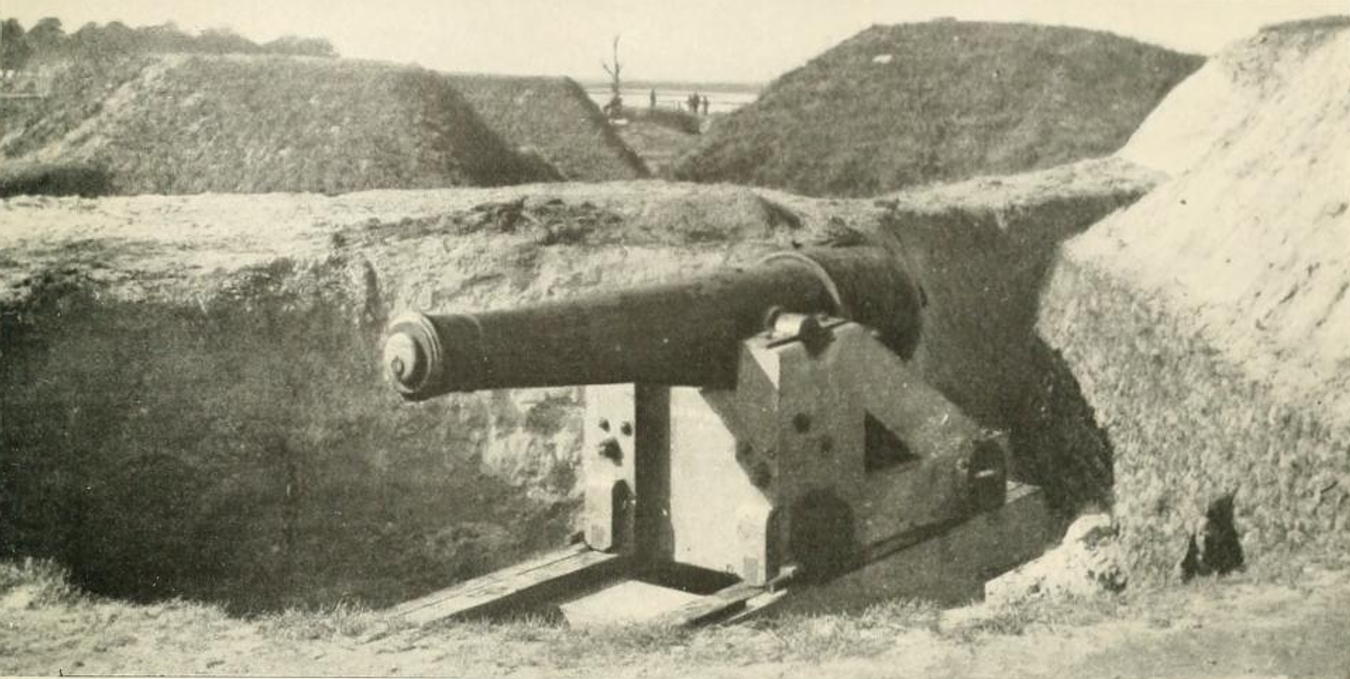 Captured Confederate gun at Fort McAllister after the siege of Savannah in 1864 p. 263.